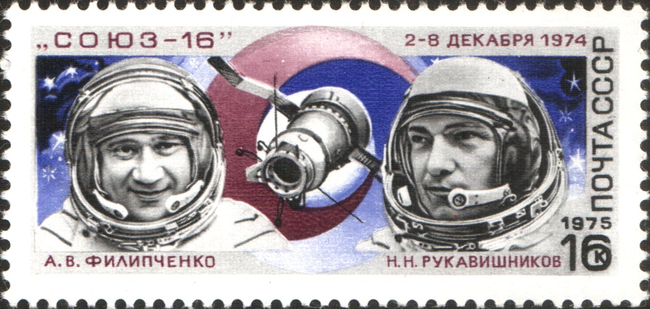 USSR stamp, "Soyuz-16", 1975, 16k.